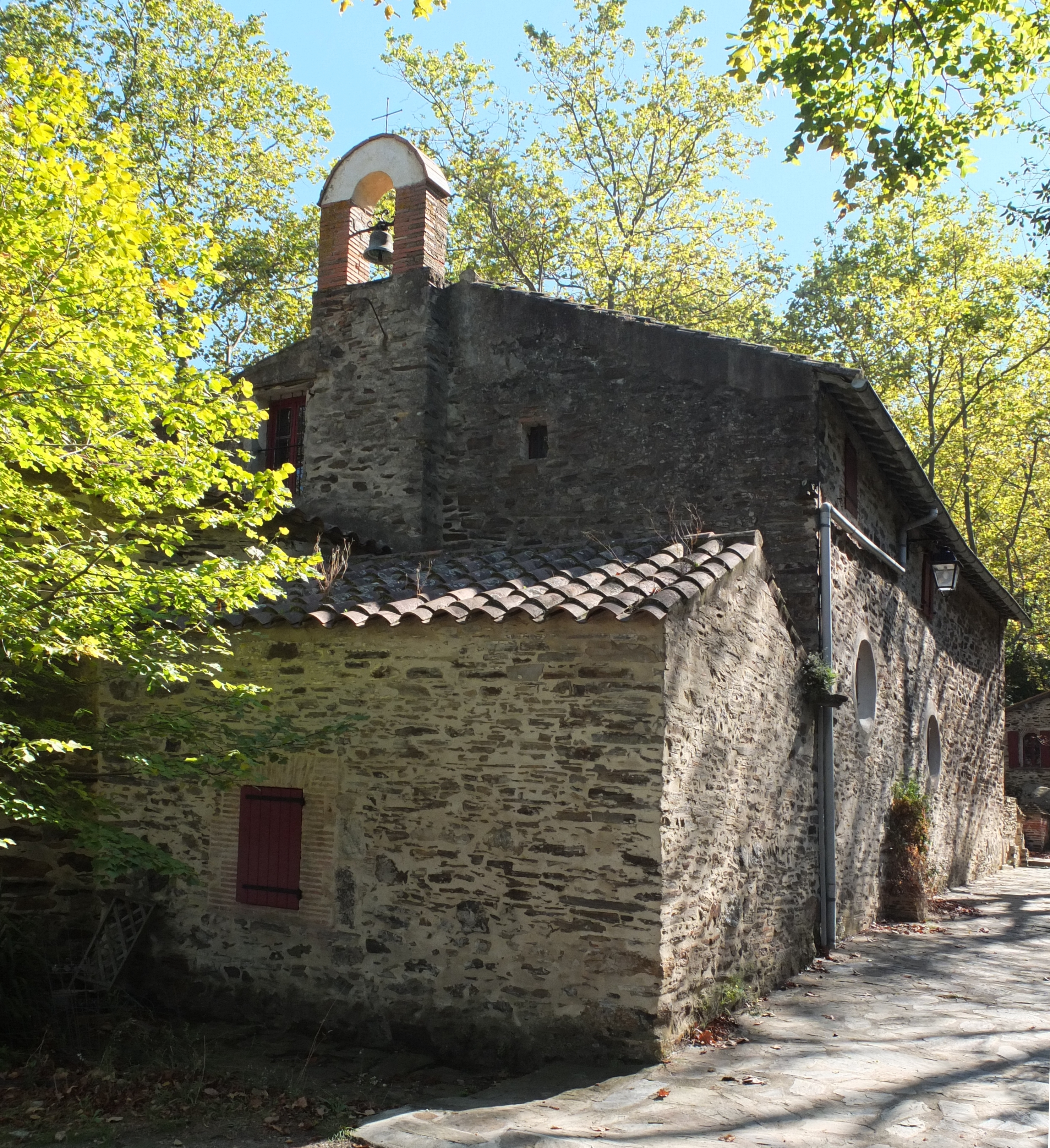 Chapel of "Ermitage Notre-Dame-de-Consolation" near Collioure, France (view NW).